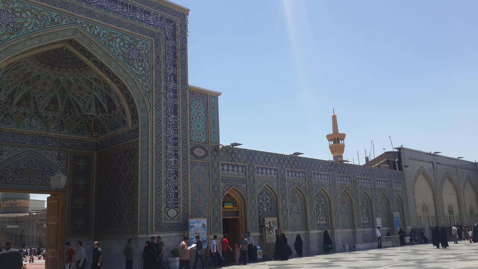 Imam Reza shrine